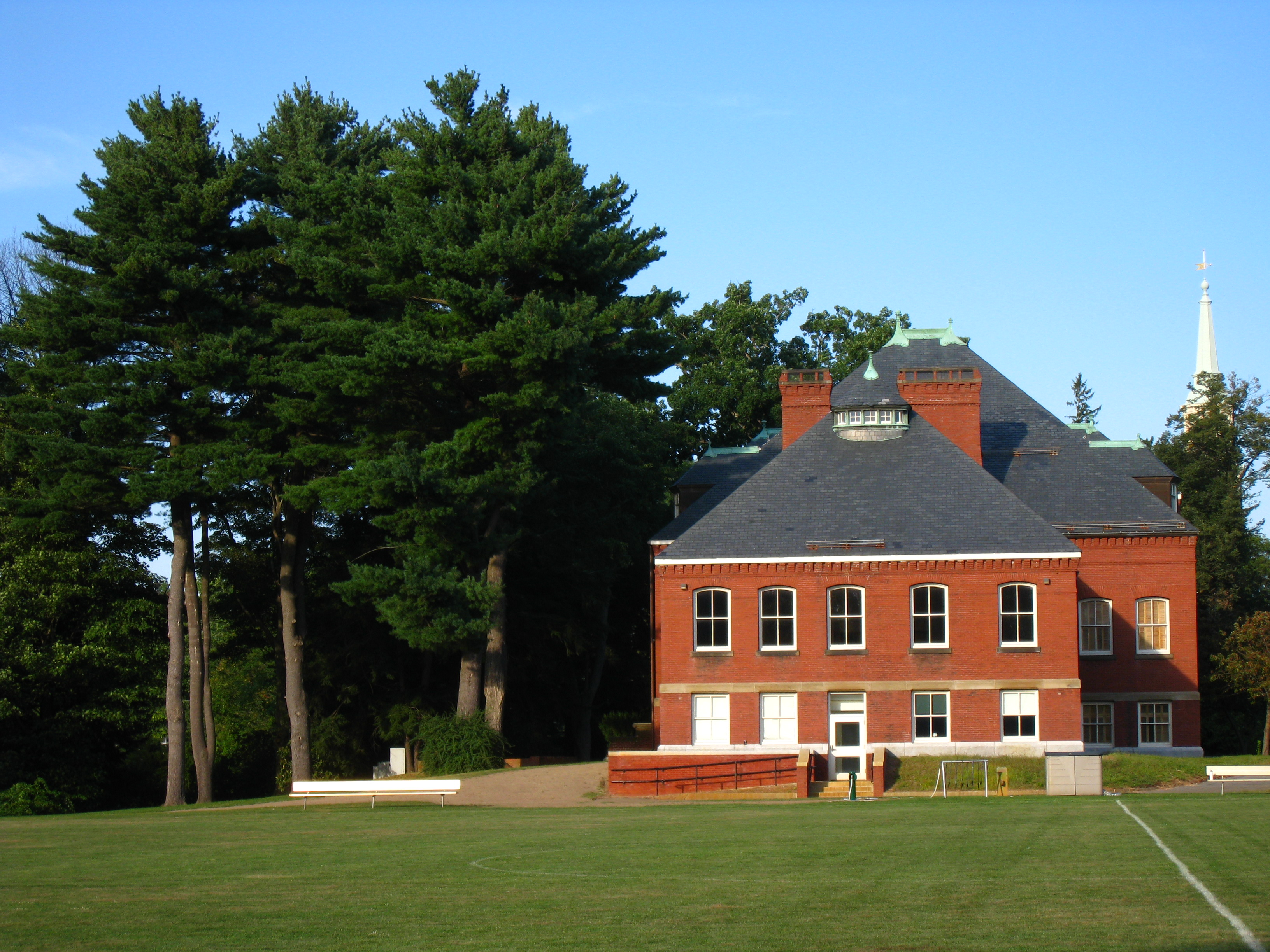 Graves Hall (Music Department), Phillips Academy